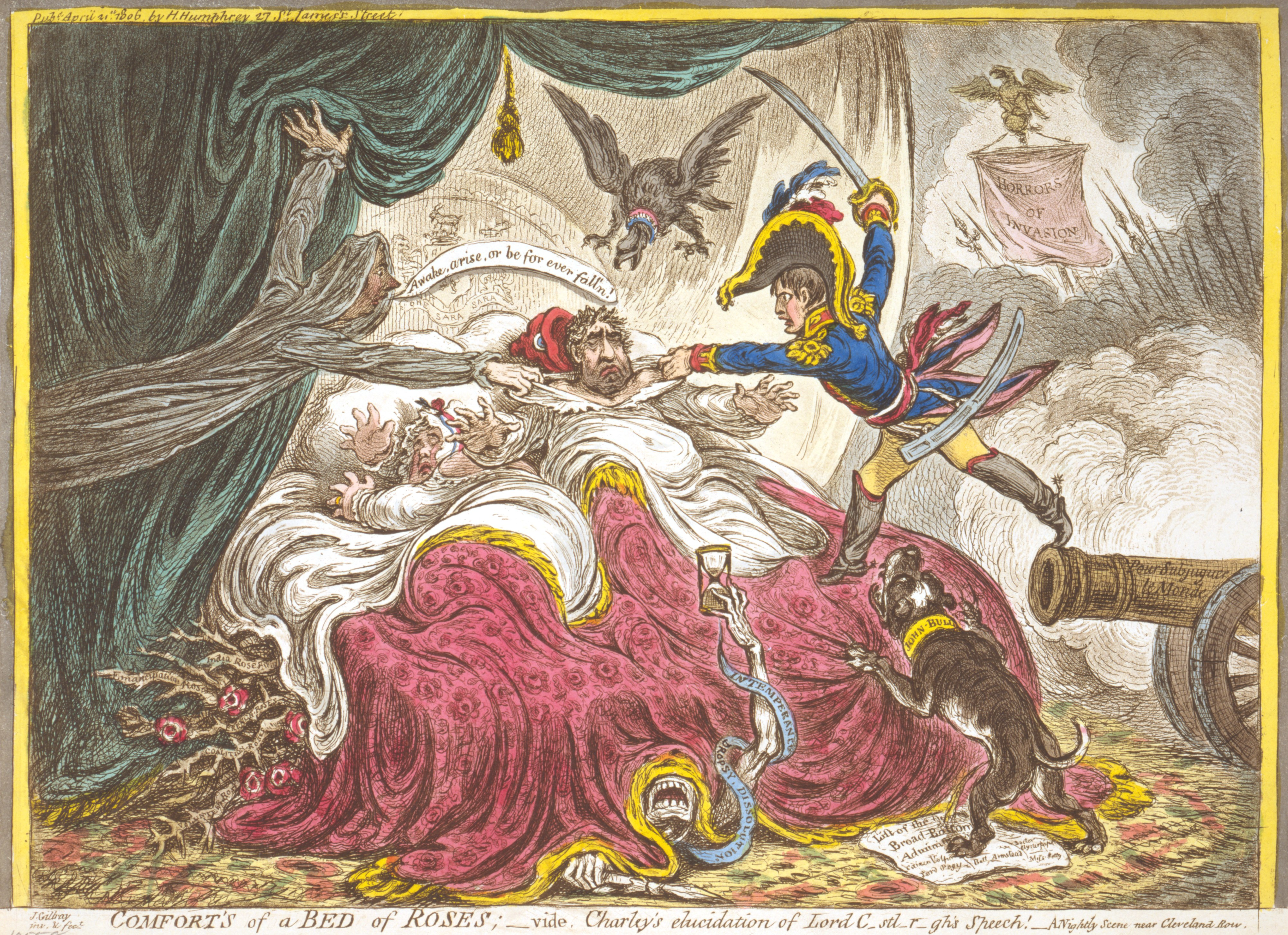 Comfort's of a Bed of Roses SUMMARY: Charles Fox, in bed with his wife, having a nightmare. To the right, Napoleon jumps to the bed from a cannon with the words "Pour subjugeur le Monde" inscribed on the muzzle; behind him are seen pikes and a banner with the words "Horrors of Invasion." William Pitt, as a shade, floats near the bed, admonishing Fox, "Awake, arise, or be for ever fallen". An eagle with the collar labeled "Prussia" looms over Fox's head. From under the bed grow thorny rose branches and Death crawls out from under the covers, holding an hourglass whose sand has nearly run out, and entwined with a scroll inscribed "Intemperance, Dropsy, Dissolution". A bulldog with its collar inscribed "John Bull" lunges at Napoleon. On the floor to the right side of the bed are tokens of Fox's problems: "India Roses", "Emancipation Roses", "French Roses", and "Volunteer Roses". At the bottom of the bed is "A List of the Broad-Bottom Administration": Citizen Volpone, Lord Bogy (Lord Grenville, nicknamed Bogy Grenville), Bett Armstead (Mrs. Fox), Doctor Clysterpipe (Lord Sidmouth), Miss Petty (Lord Henry Petty). MEDIUM: 1 print : etching, hand-colored. CREATED/PUBLISHED: [London] : H. Humphrey, 1806 April 21st.